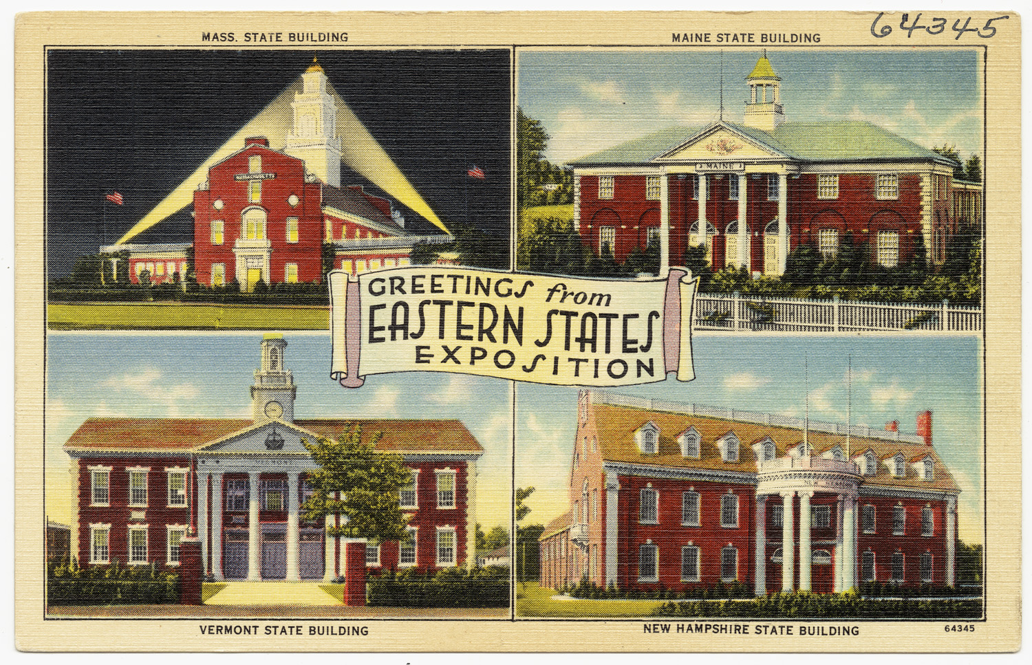 File name: 06_10_012790 Title: Greetings from Eastern States Exposition -- Mass. state building, Maine state building, Vermont state building, New Hampshire state building Created/Published: Date issued: 1930 - 1945 (approximate) Physical description: 1 print (postcard) : linen texture, color ; 3 1/2 x 5 1/2 in. Genre: Postcards Subjects: Government facilities Notes: Title from item. Collection: The Tichnor Brothers Collection Location: Boston Public Library, Print Department Rights: No known restrictions